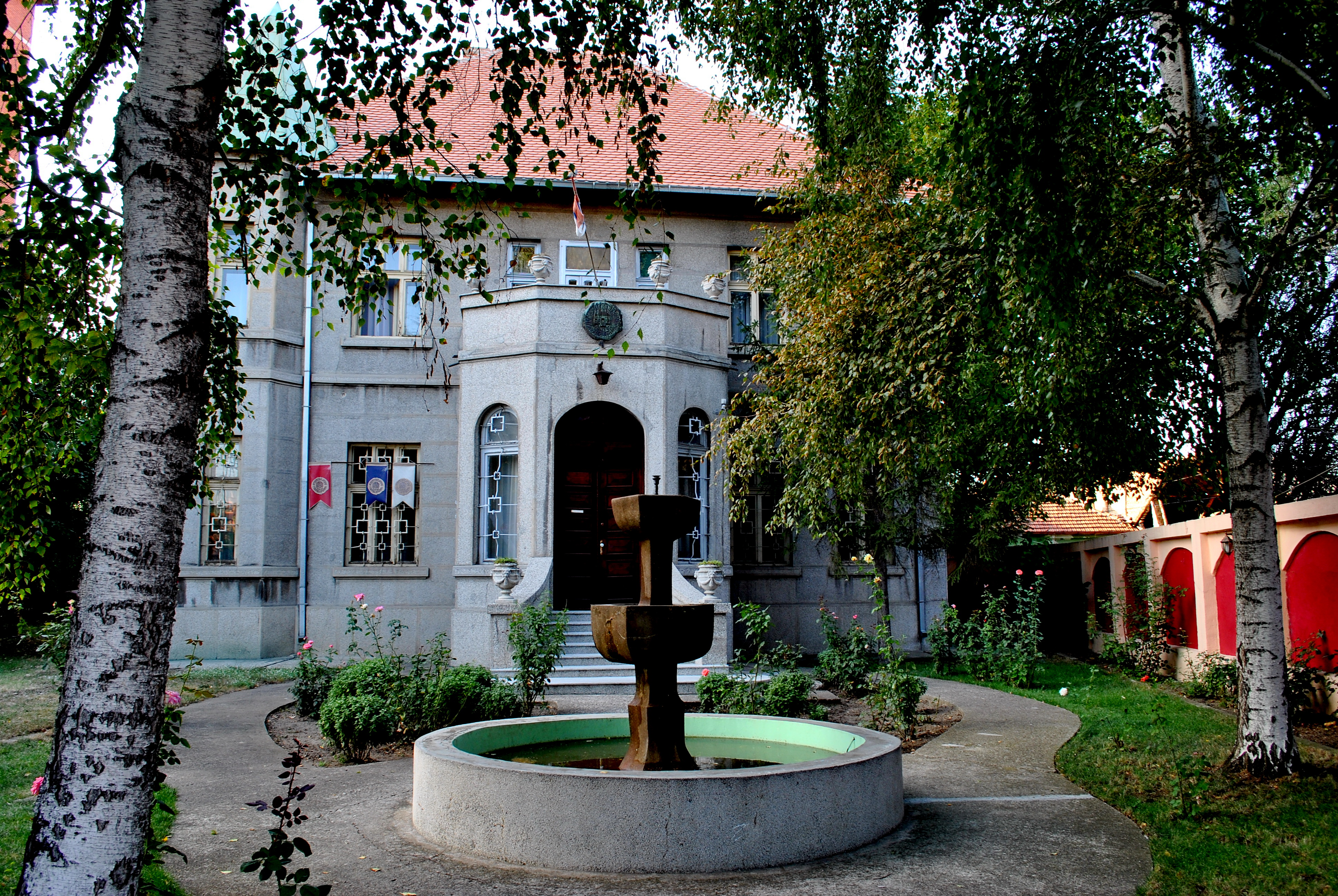 СК 995